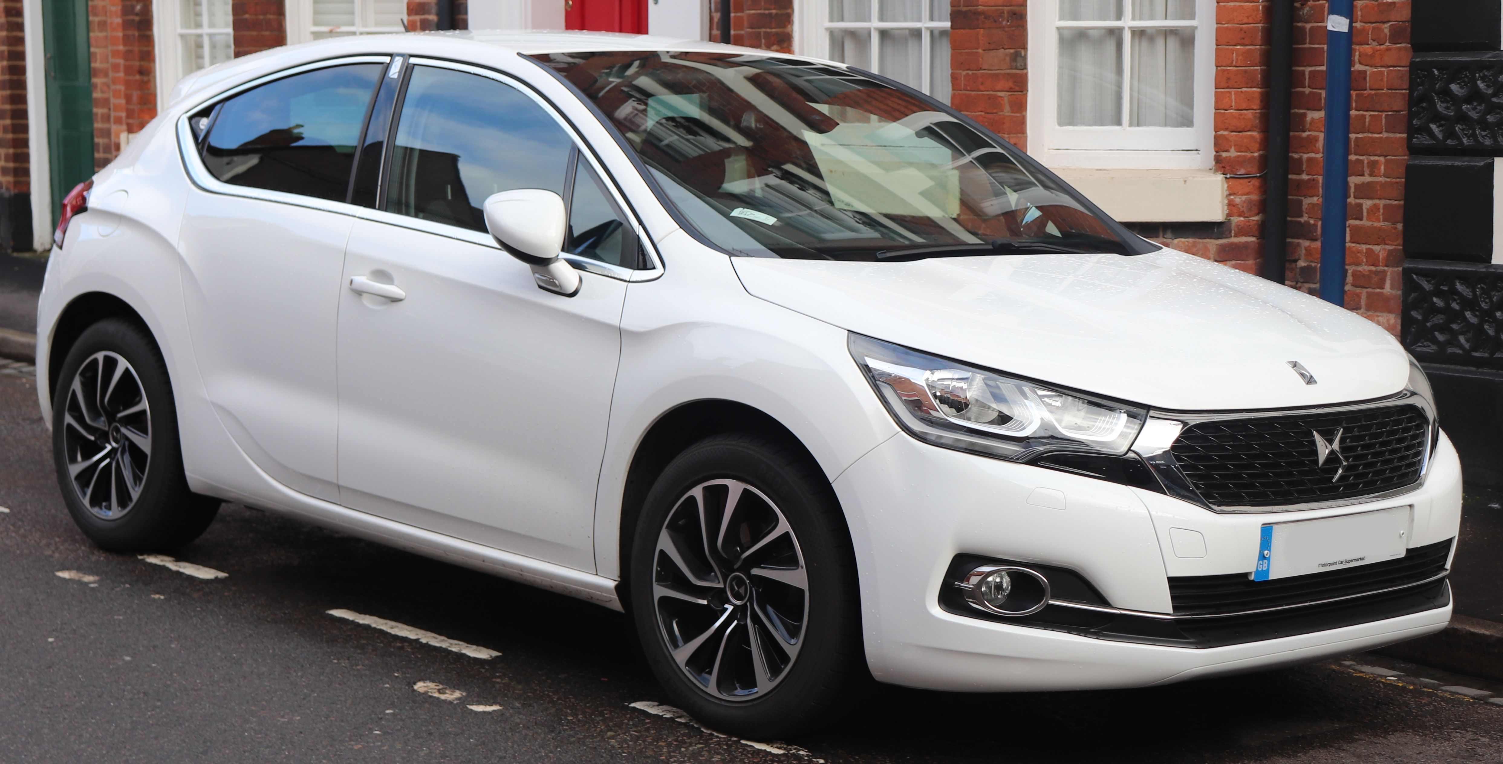 2016 DS DS4 Elegance BlueHDi 1.6 Front Taken in Warwick